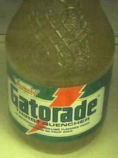 Image of an original-era Gatorade in a glass bottle. This is a modified (cropped) version of the original (see "Other versions" below), which is licensed under the Creative Commons CC-BY-2.0 by its rights-holder, Like_the_Grand_Canyon on Flickr. This license allows for the sharing and remixing (in this case, cropping) of the photo.